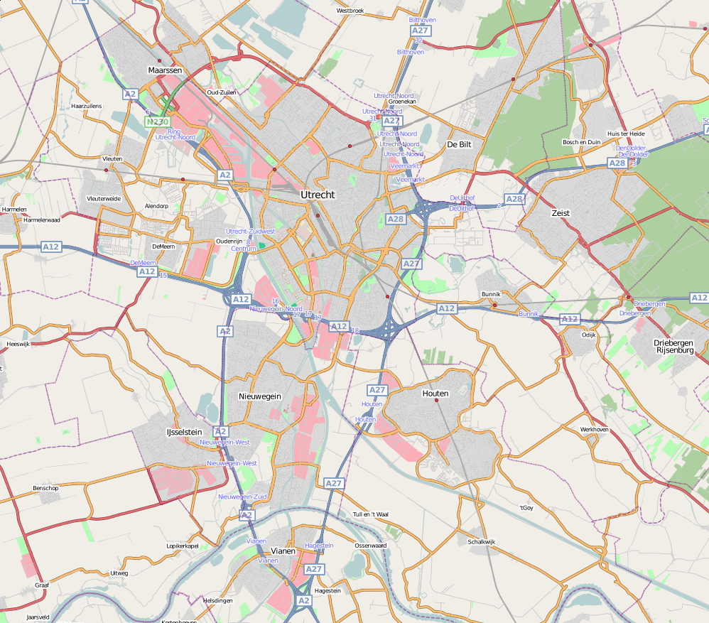 OpenStreetMap of the Utrecht agglomeration